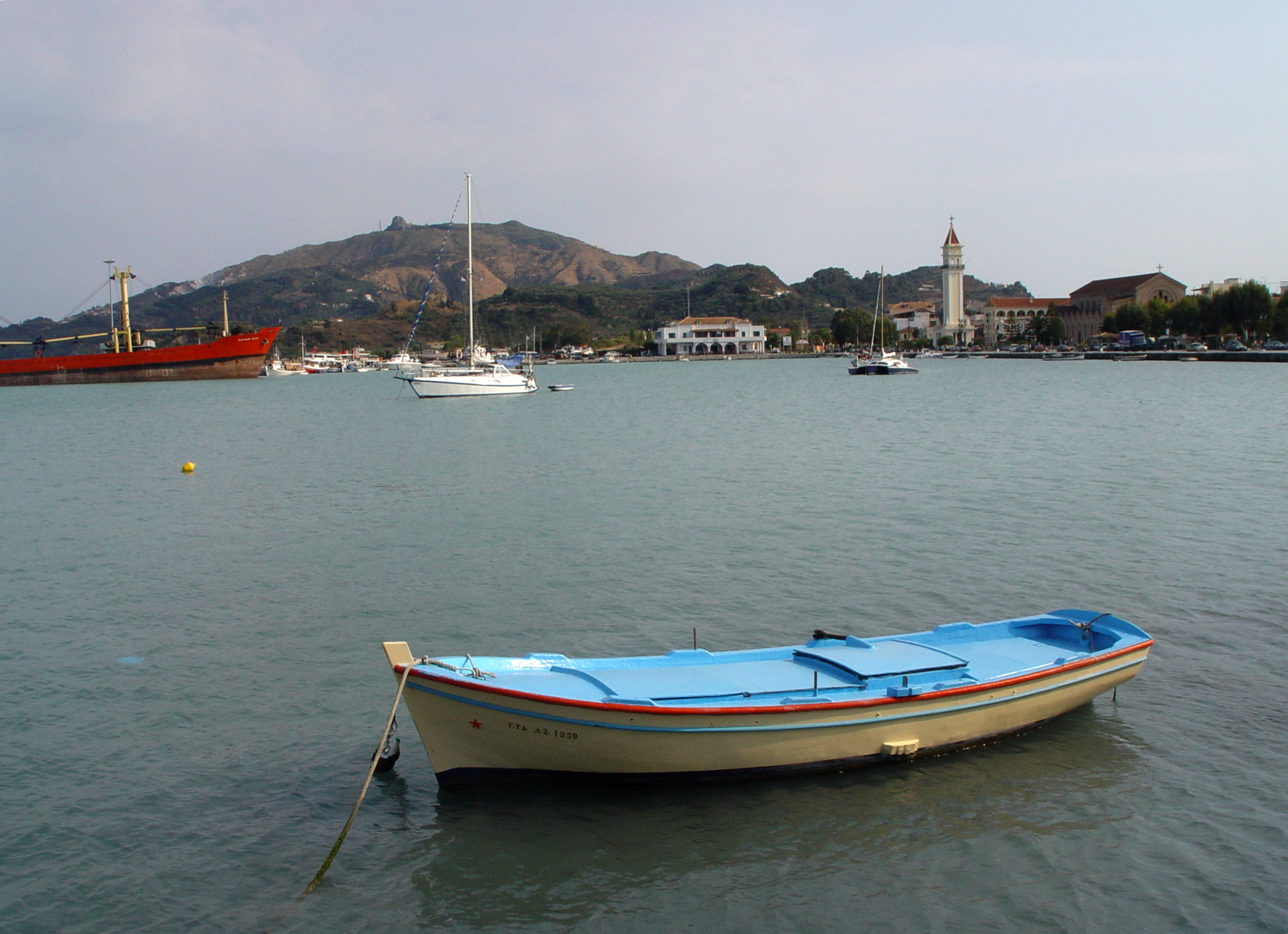 A view of the old part of the port of Zakynthos town, Zakynthos island in Greece. The church of Agios Dionyssios is visible on the right.